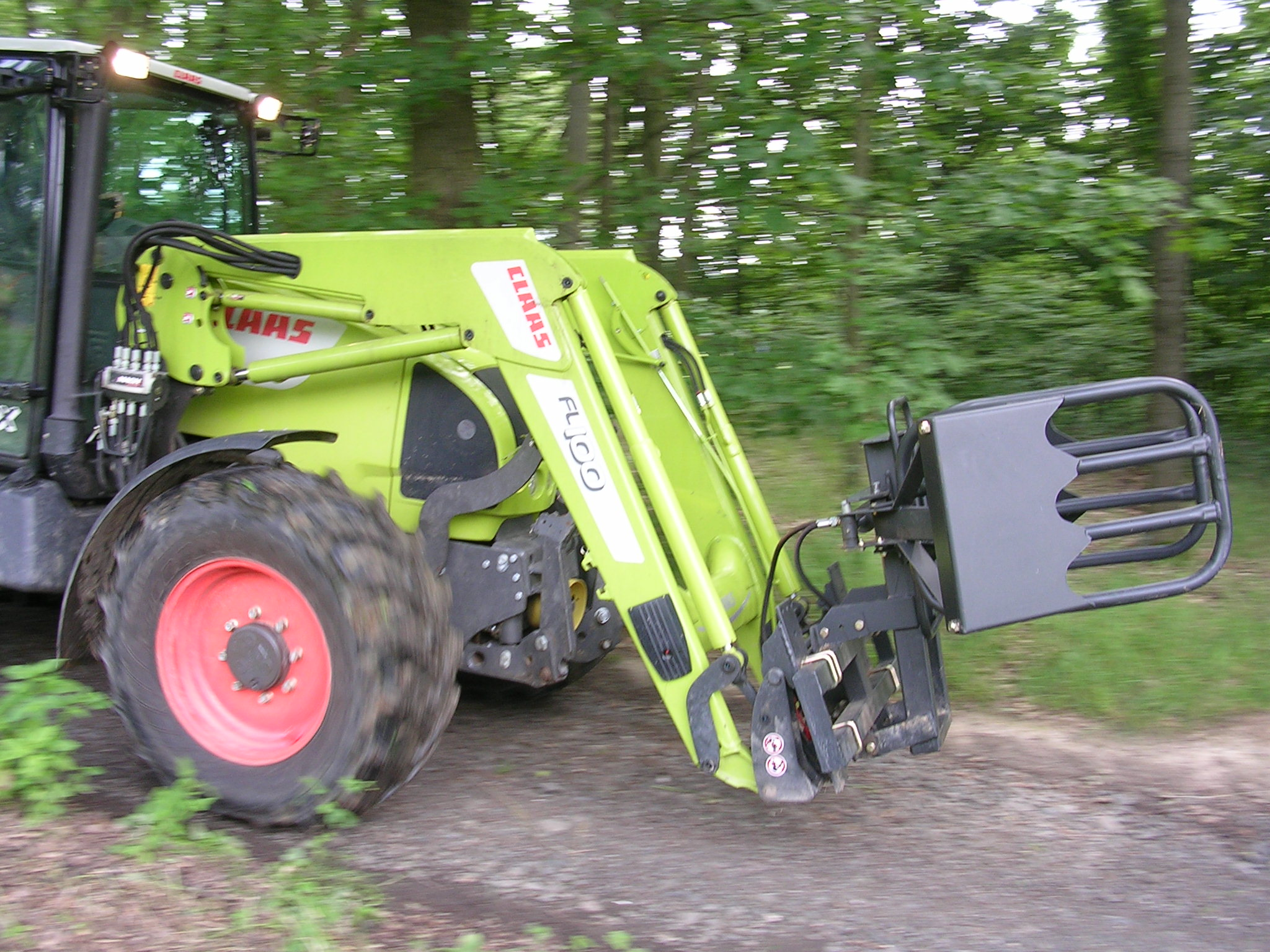 Troskovice, Liberec Region, the Czech Republic.